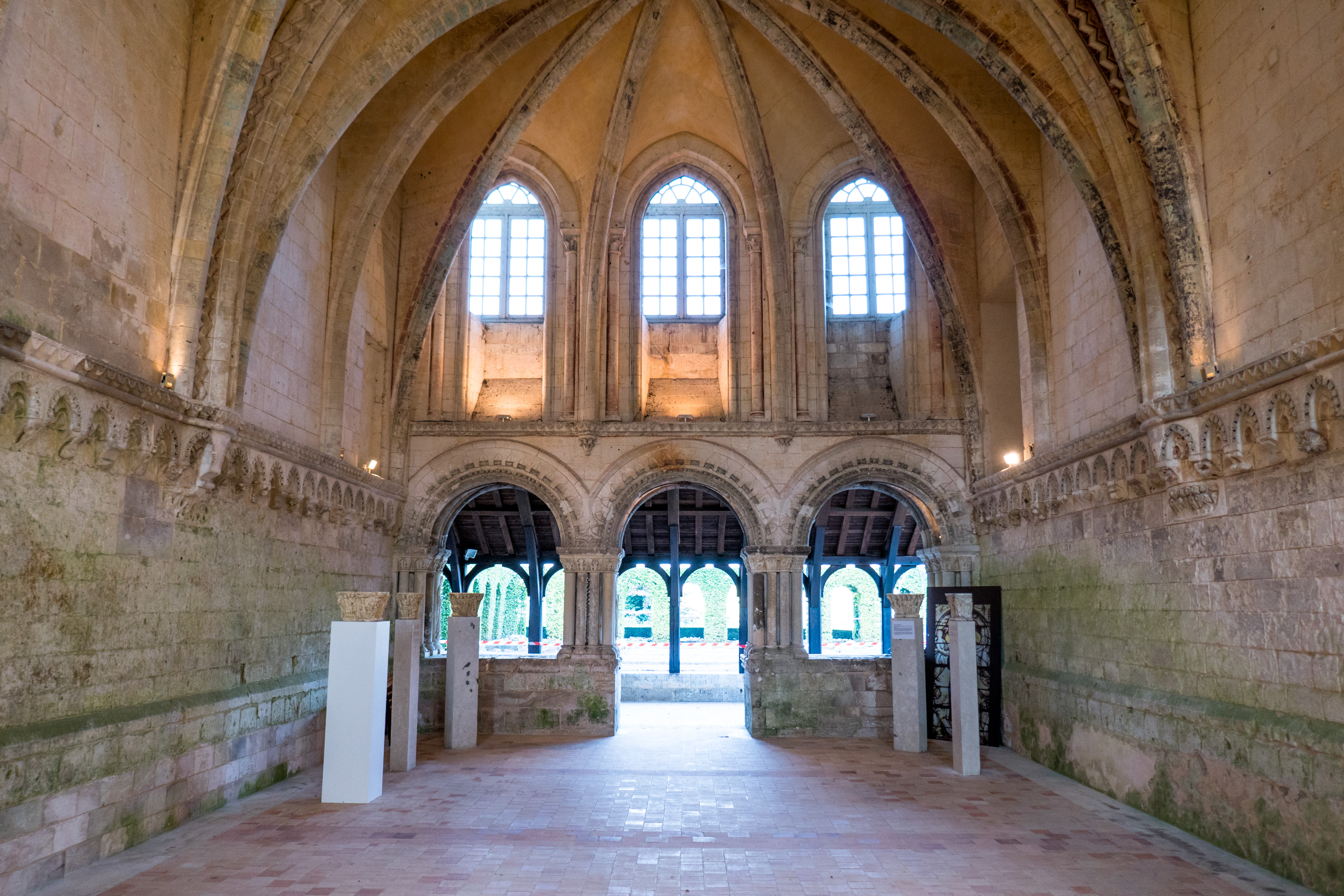 Interior looking out from chapter house of Abbaye Saint-Georges de Boscherville